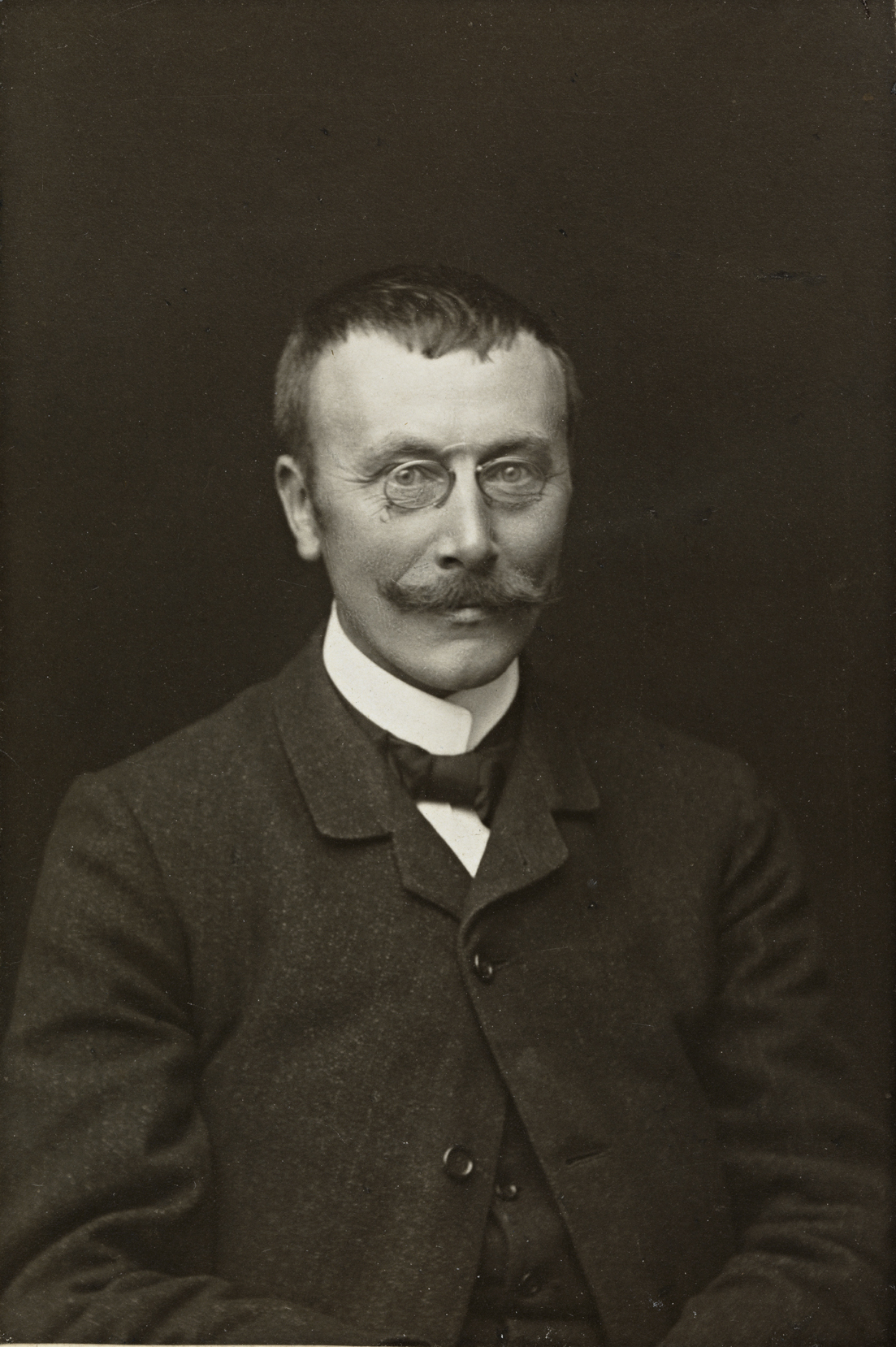 Tittel / Title: Portrett av Hans Aanrud (1863-1953) Motiv / Motif: Visittkort. Dato / Date: ukjent / unknown Fotograf / Photographer: L. Forbech (Christiania) Eier / Owner Institution: Nasjonalbiblioteket / National Library of Norway Lenke / Link: Bildesignatur / Image Number: blds_04782